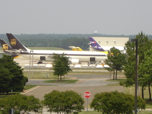 Cargo planes at North Cargo Terminal of Raleigh-Durham International Airport. Taken at RDU Observation Park. One in UPS current livery, and another in the former livery.